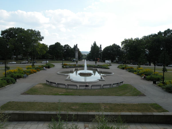 Picture of the fountain in the park in the Highland Park neighborhood of Pittsburgh, Pennsylvania, on August 7, 2010. The park was founded in 1889.